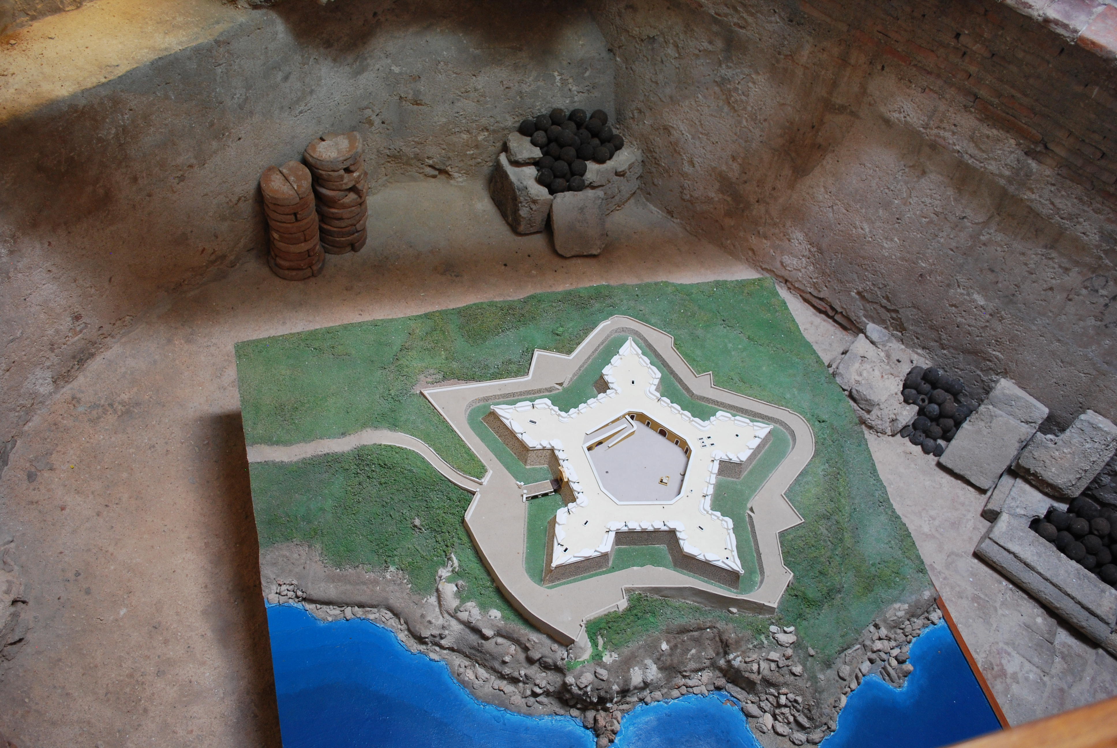 Model of the San Diego Fort at the Fort in Acapulco, Mexico